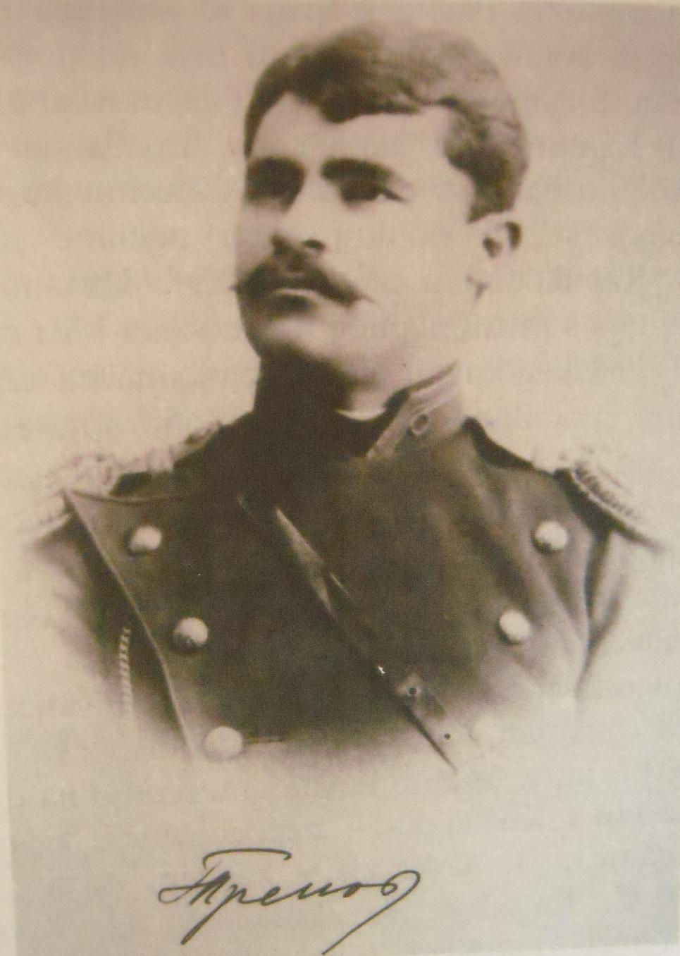 Captain Georgi Trenev from MOO